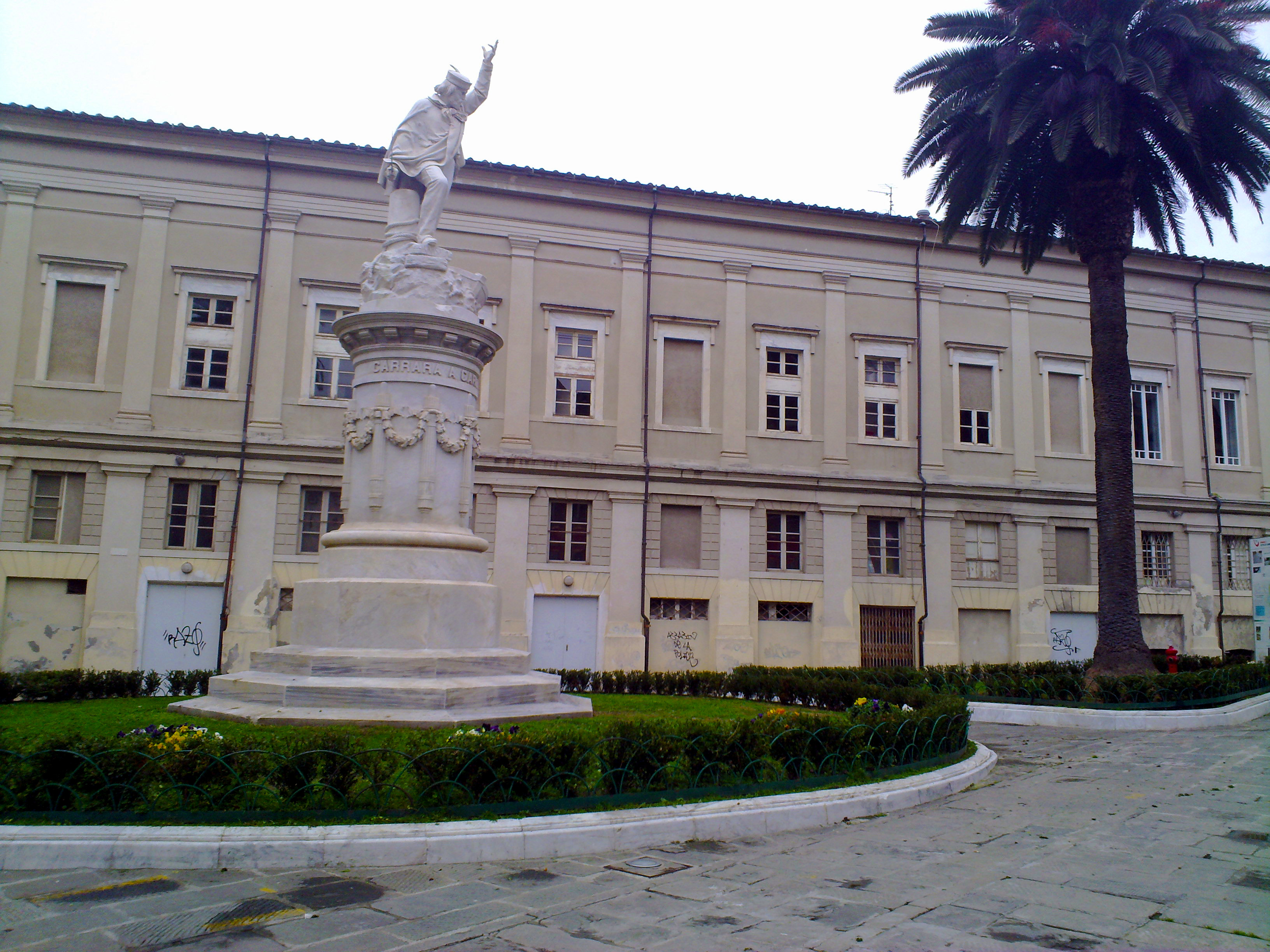 Teatro Animosi Facade on Piazza Garibaldi - Carrara